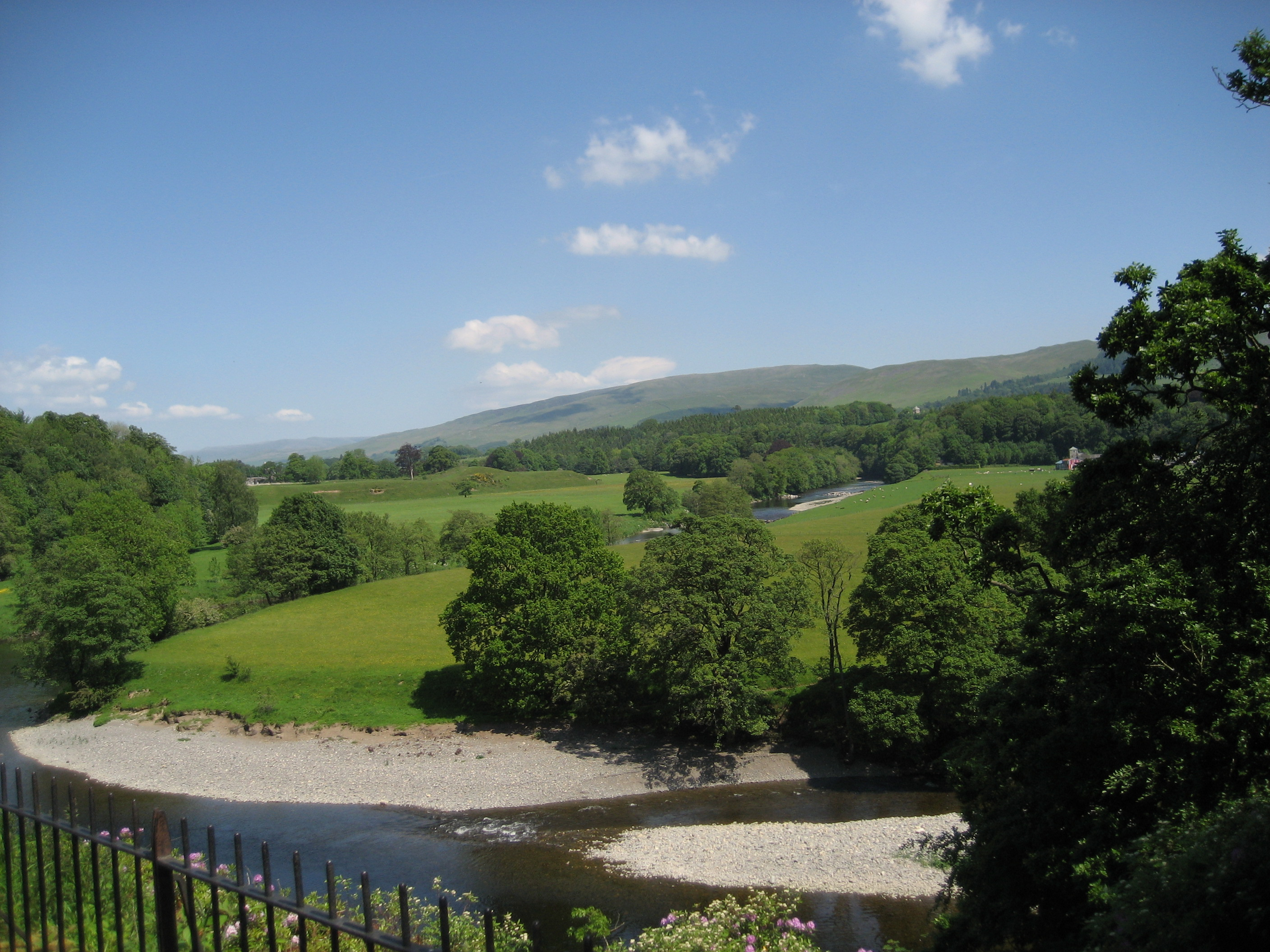 This view is the location known as 'Ruskin's View' in Kirkby Lonsdale, Cumbria, England. This view was made famous by Turner who painted and made it famous. The view was described by Ruskin as "One of the loveliest views in England' in his 'Fors Clavigera'